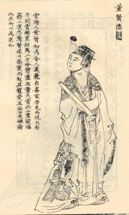 Dong Xian (董賢) portrait by Jin, gu-liang (金古良) in a book (title:無雙譜). Inscription(題字) = 「雲陽人董賢初為舍人，美麗自喜。哀帝見而悅之，旬月間賞賜累鉅萬，上方珍寶，盡在董氏。嘗共上晝寢，偏籍上褎，恐驚賢寐，乃斷褎而起。其寵愛至欲法堯禪舜，此其所以為哀也。」